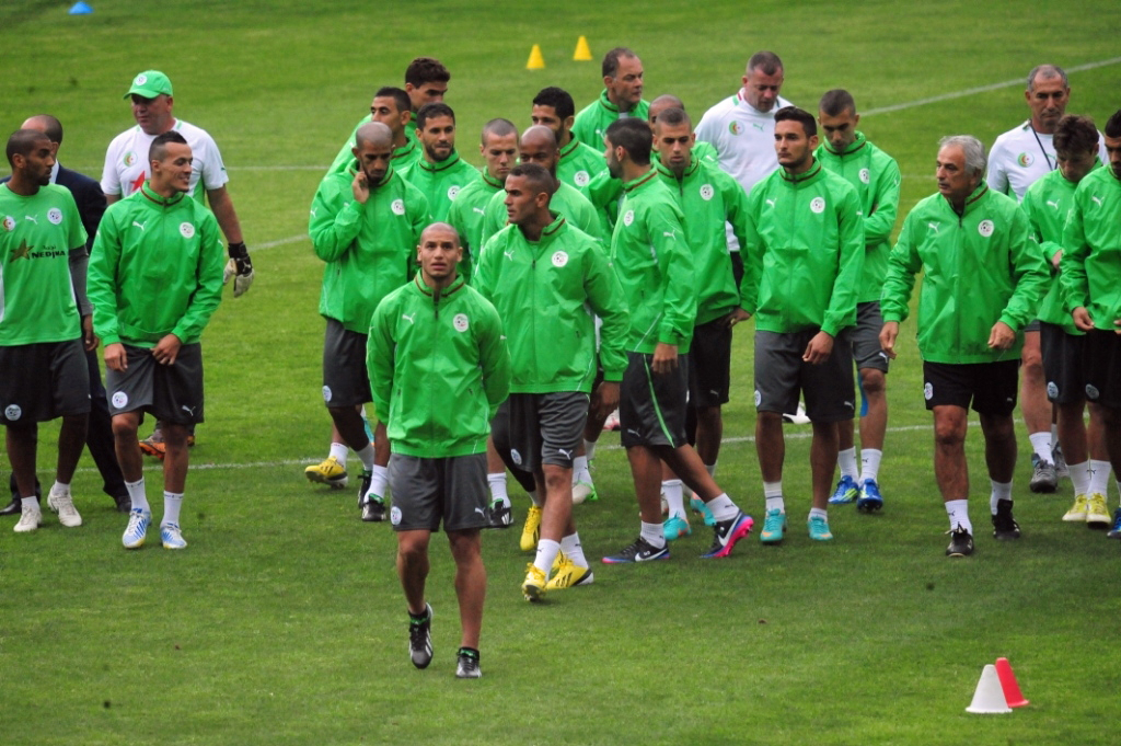 The Algerian national team train in South Africa for their 2013 CAN opener against Tunisia.